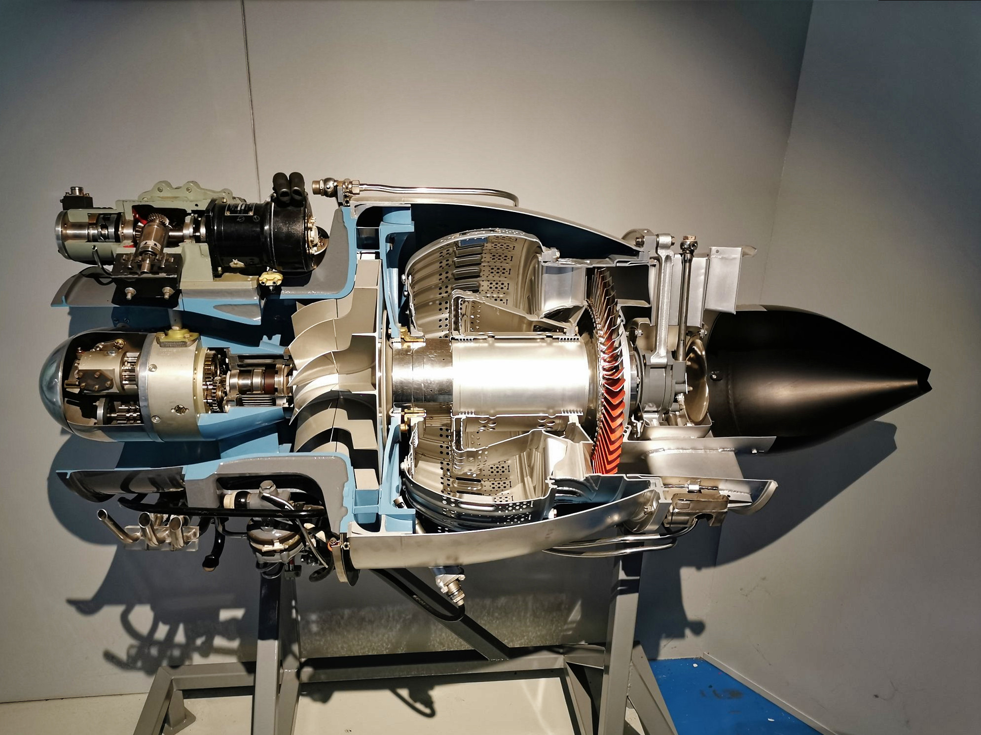 The Marbore IV is a french jet engine build by turbomeca, built under licence as Teledyne CAE J69